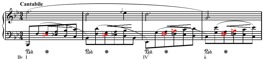 Chromatic nonharmonic tones (in red) in Frédéric Chopin's Op. 28, no. 21, mm. 1–4.